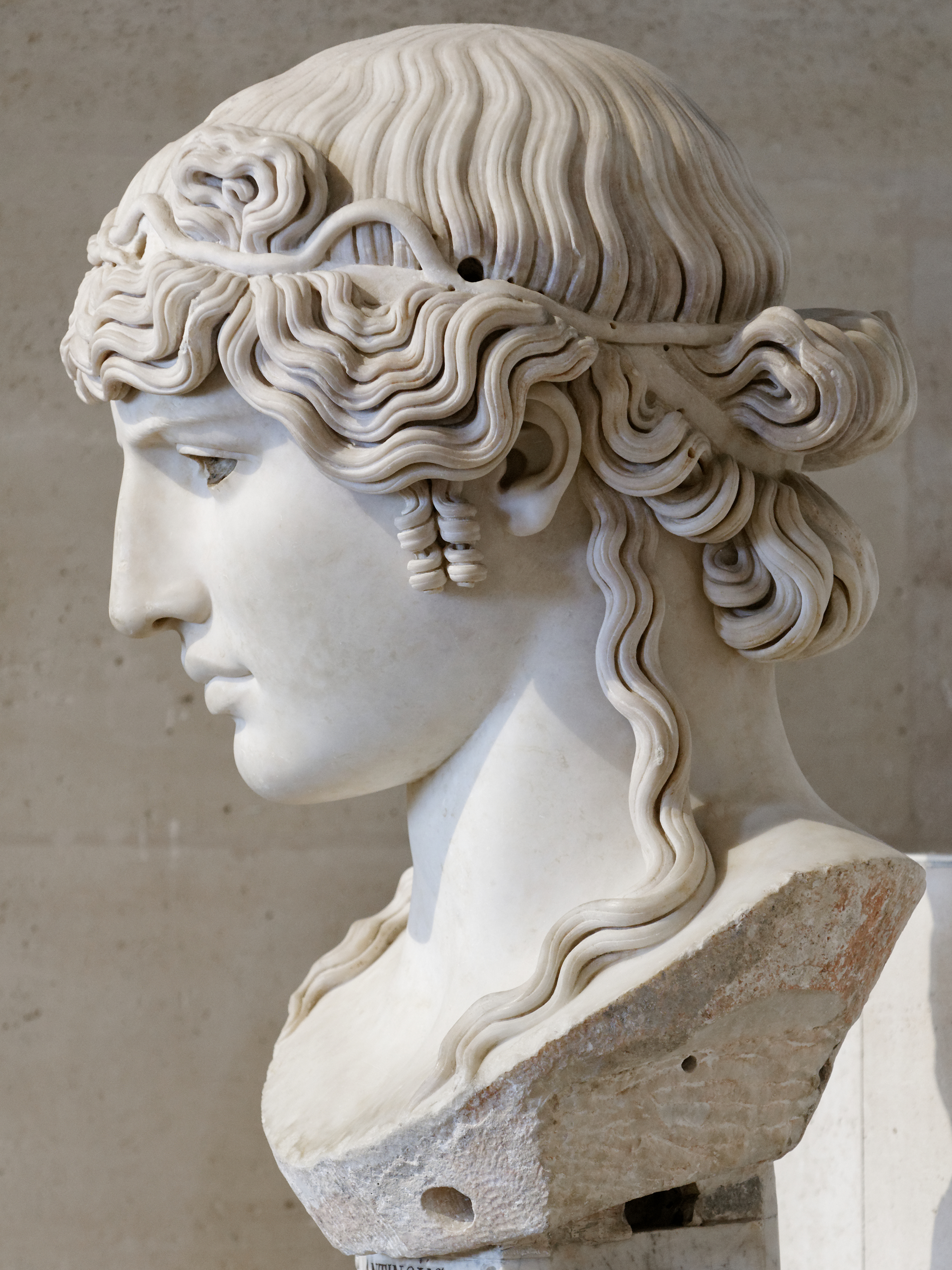 Colossal portrait of Anrtinoos. The eyes and the attribute on the top of the head (uraeus or lotus flower?) were added on later. The bust was inserted into a body of a different material.